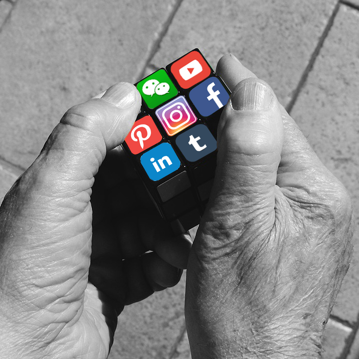 Social Media Strategy Image